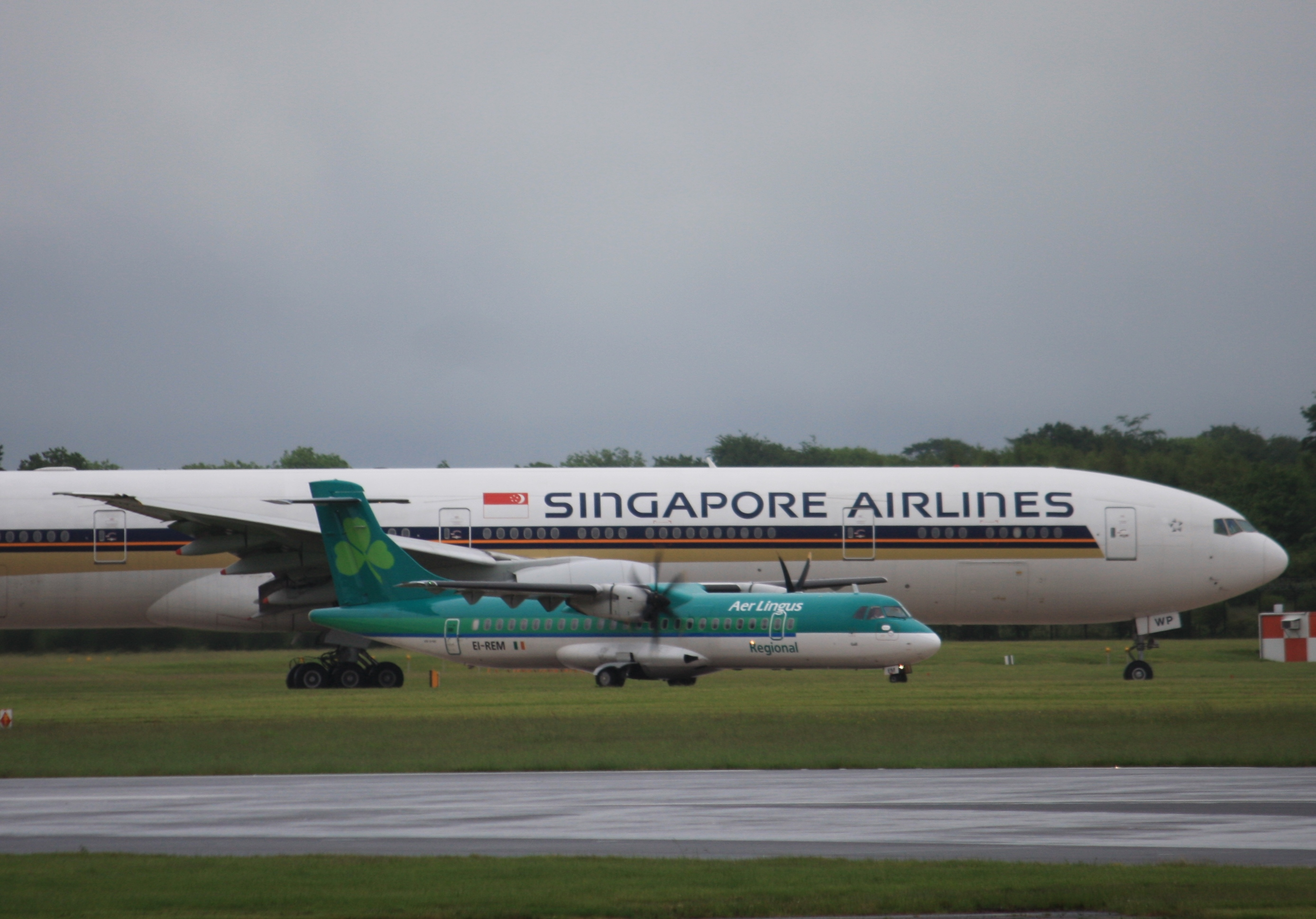 also visible; EI-REM ATR ATR-72-500 (ATR-72-212A) (cn 760) Aer Lingus Regional (Aer Arann). Manchester - International (Ringway) (MAN / EGCC) UK - England, June 8 2012.